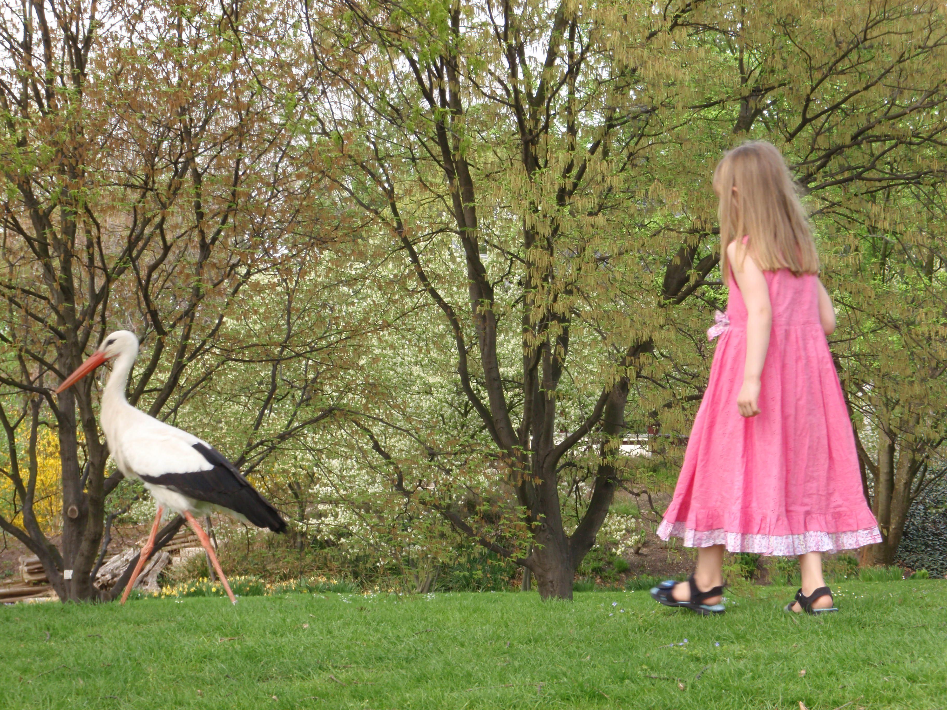 Stork and girl in the Luisenpark Mannheim (Germany)